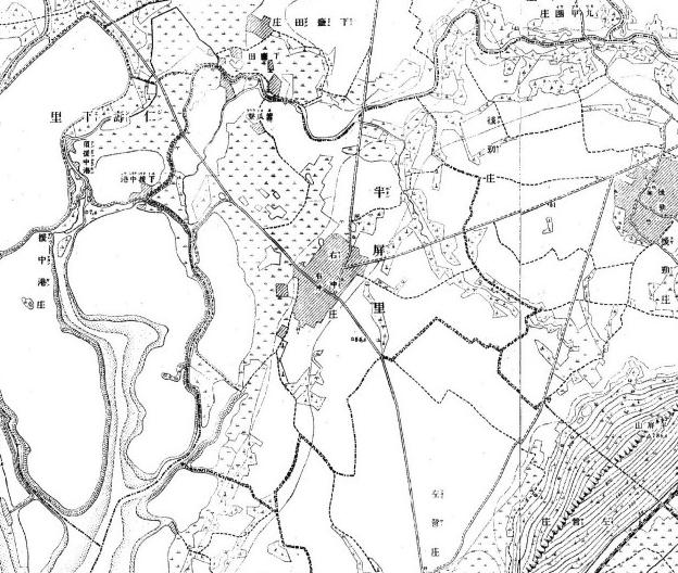 Youchang (Taiwan Baotu)